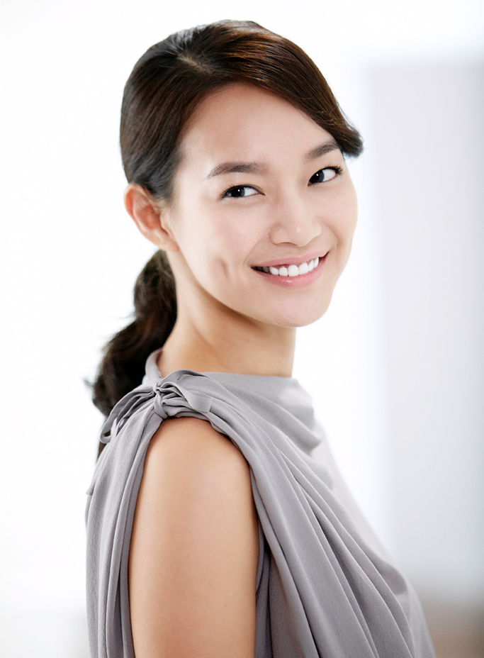 Shin Min-a advertising for LG Optimus 3D and LG Cinema.